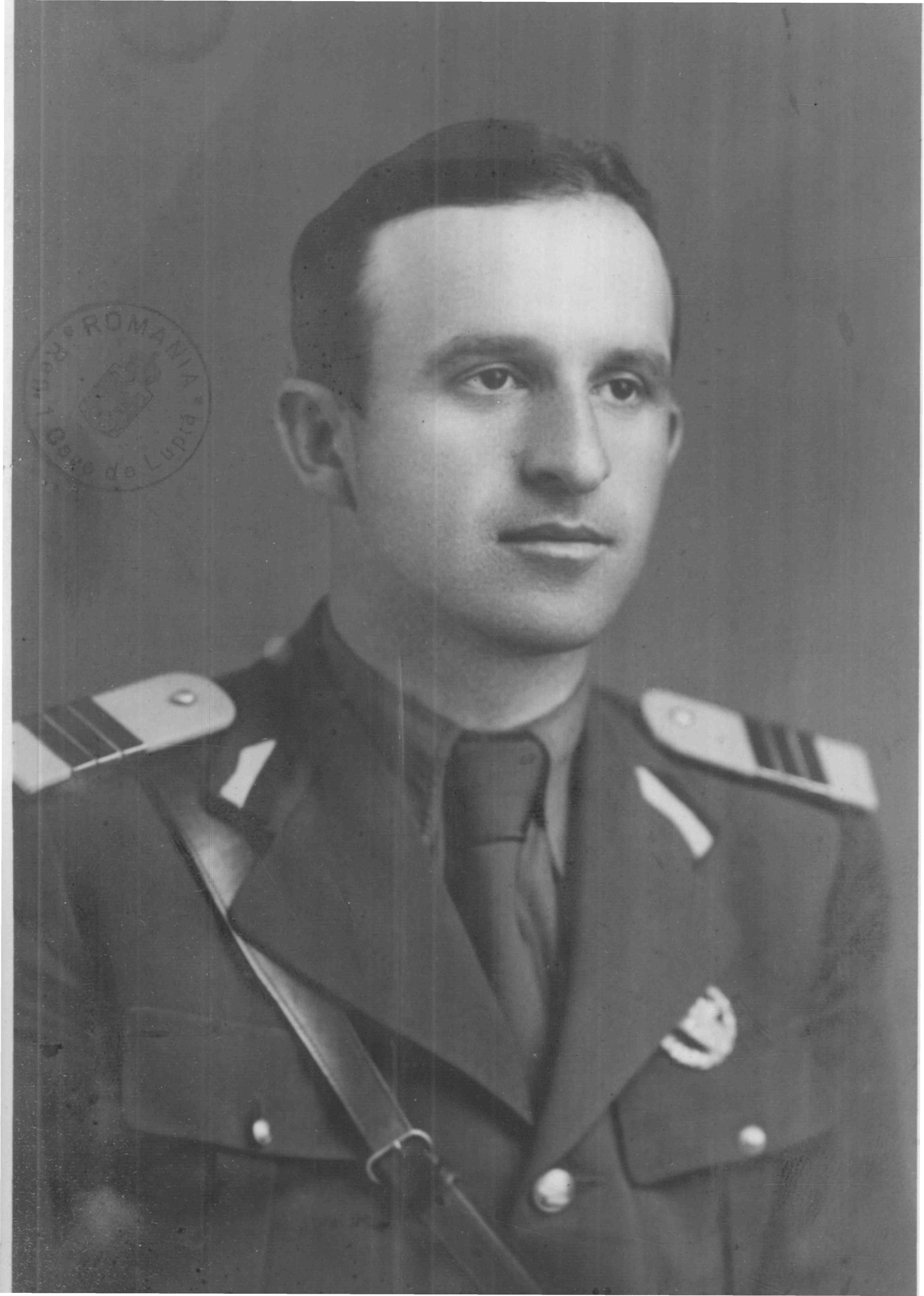 Captain Napoleon Alexandru Popescu (Romania), 26.01.1909 - 03.12.1996, 5-th Company of the 1st Tank Regiment (Romania). On the photo it is the stamp (year:1940) of the 1st Tank Regiment